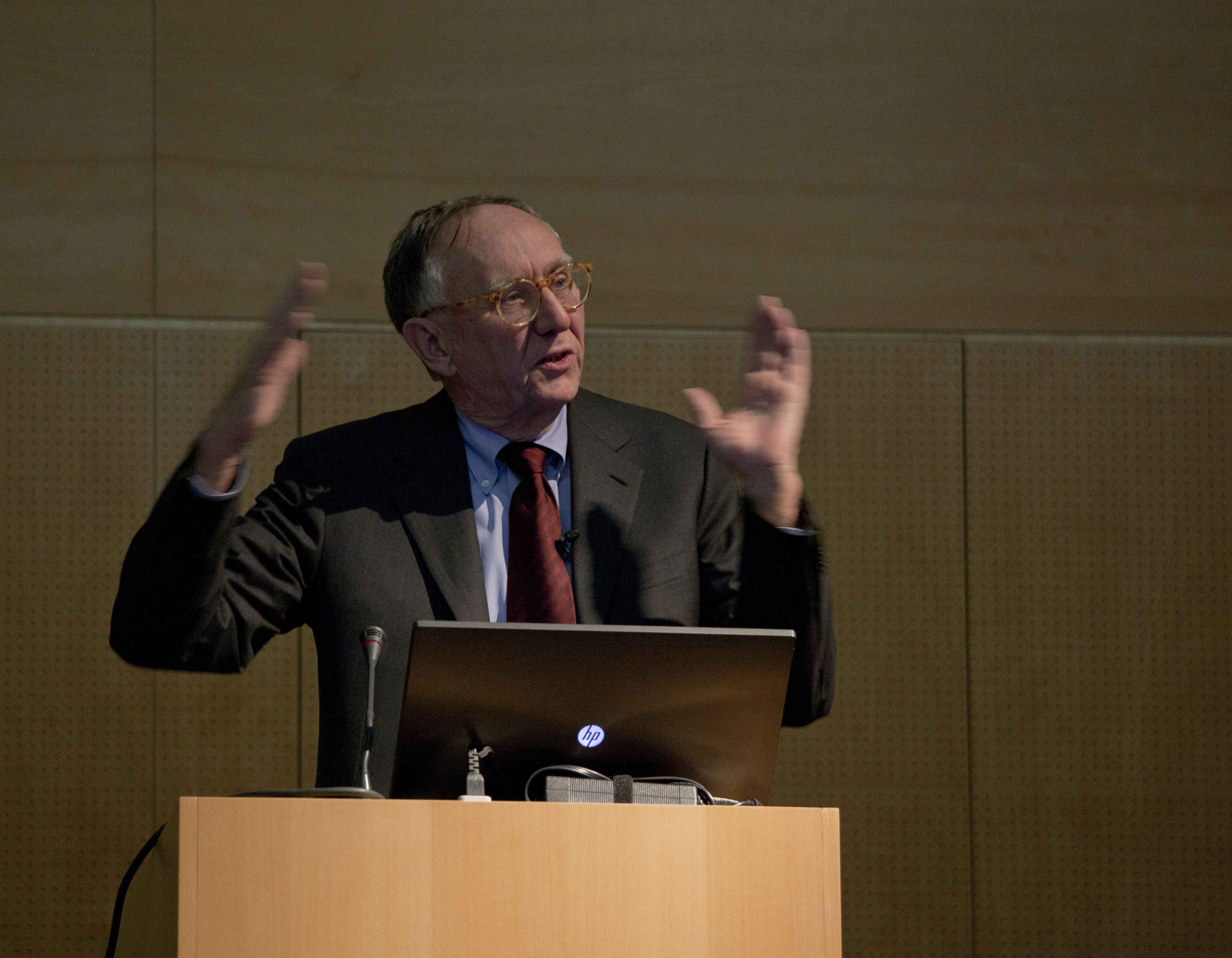 U.S. Mission photo by Eric Bridiers